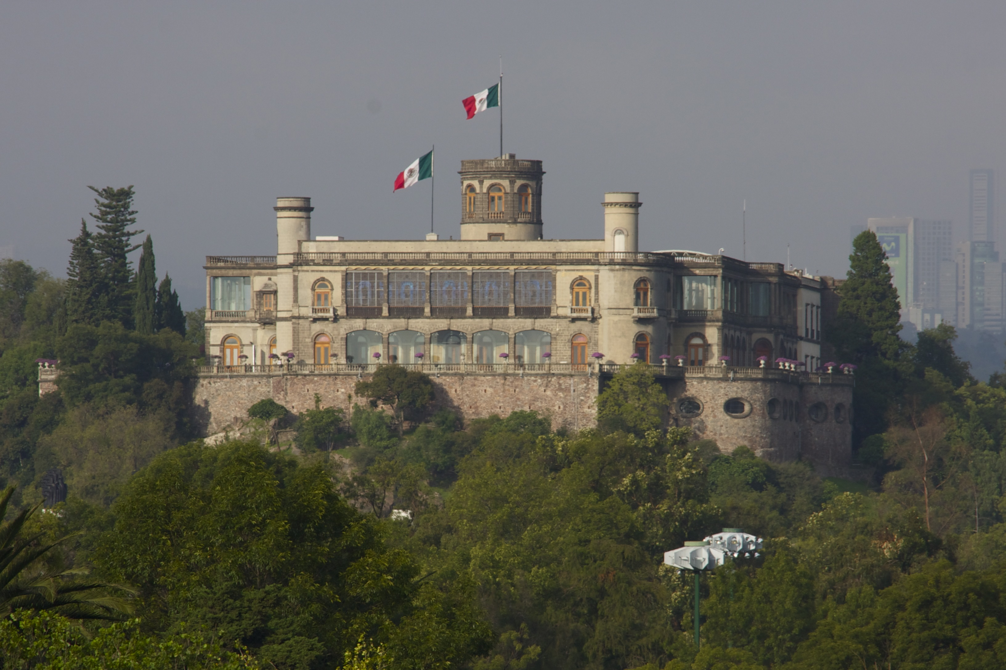 Castillo de Chapultepec Castle